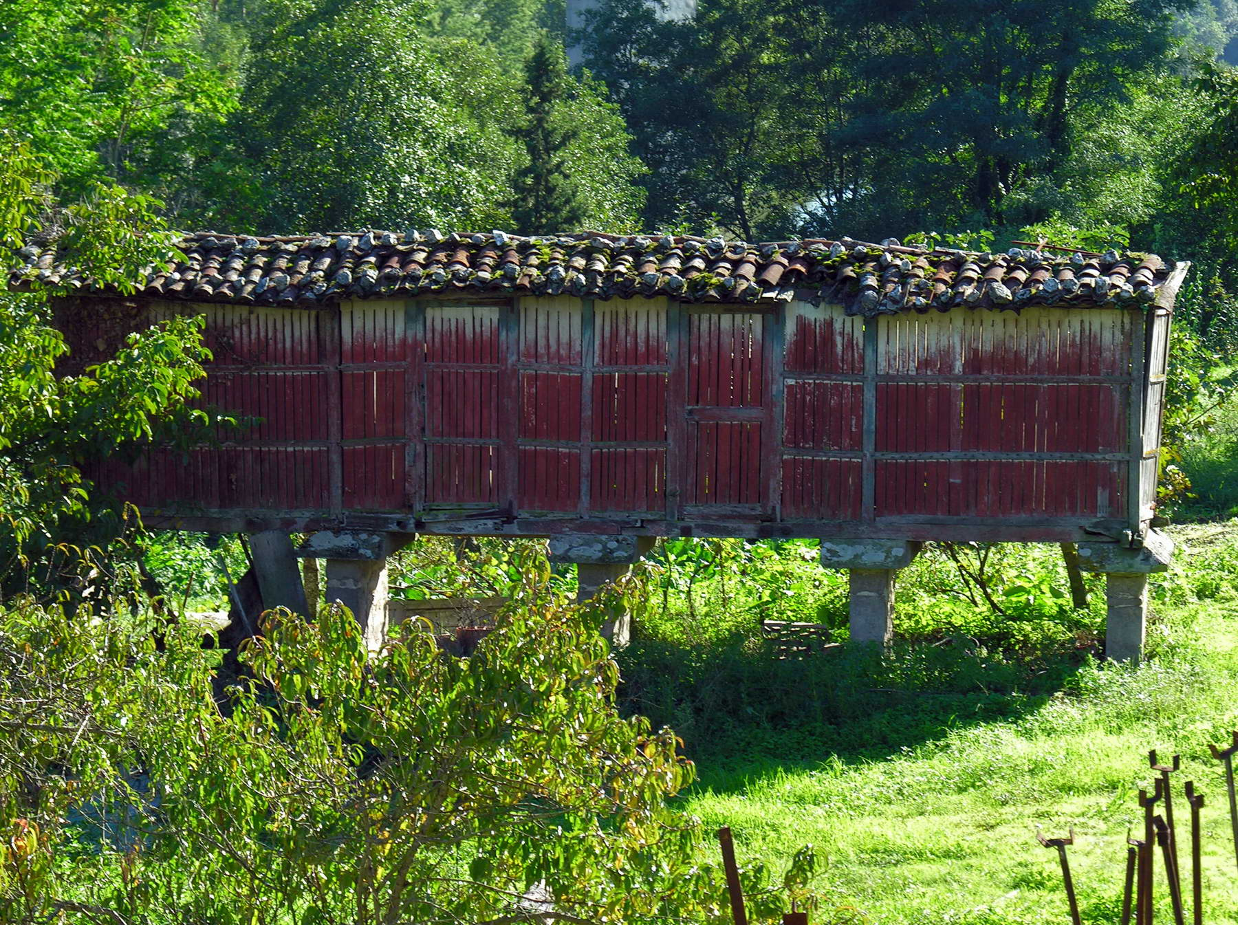 Publish by= Luis Miguel Bugallo Sánchez.